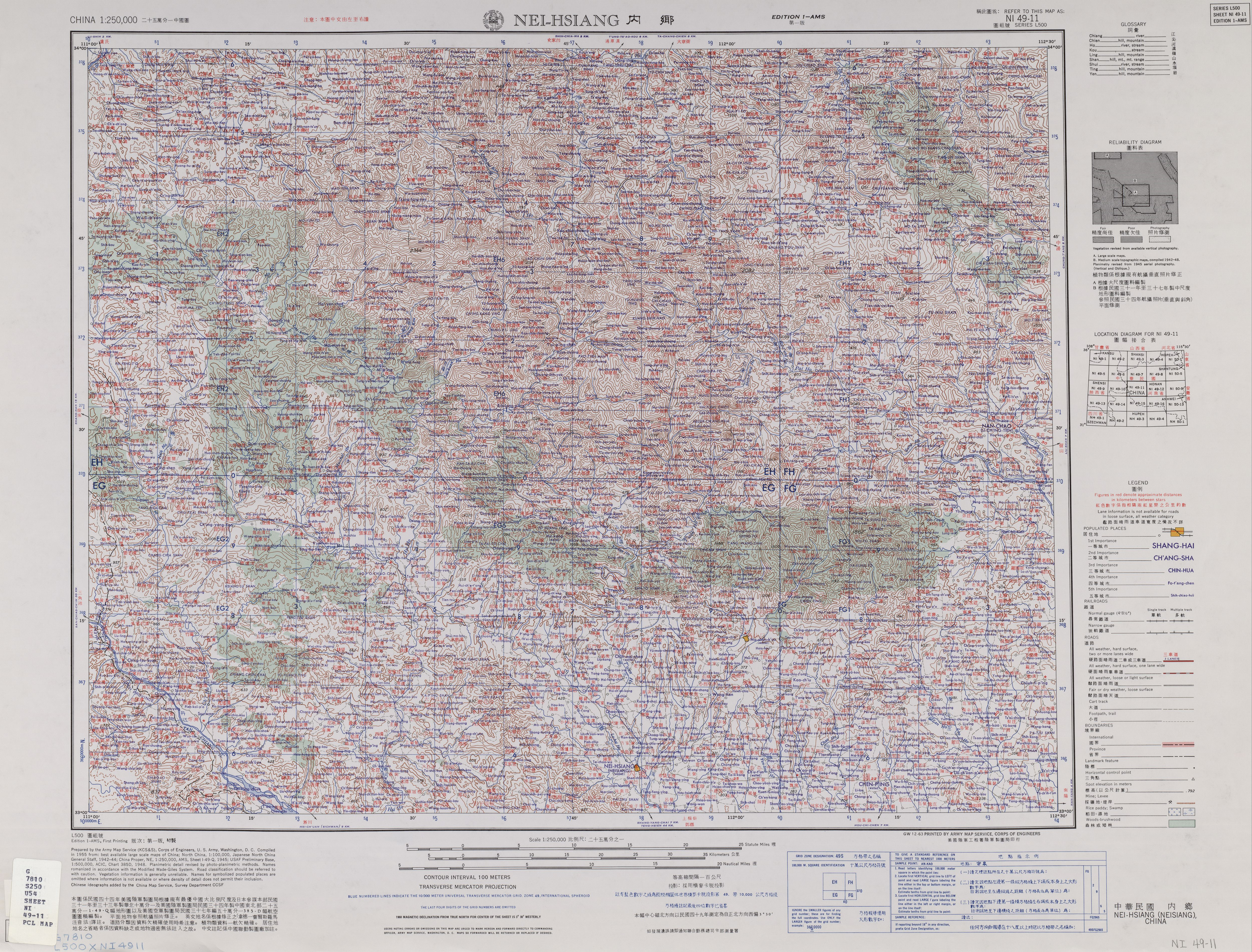 China AMS Topographic Maps